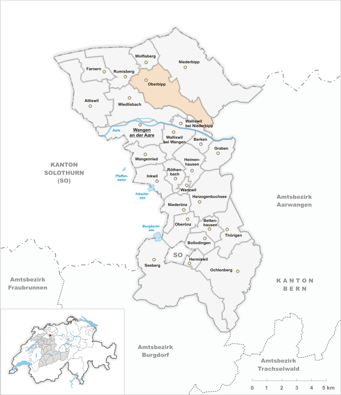 Municipality Oberbipp